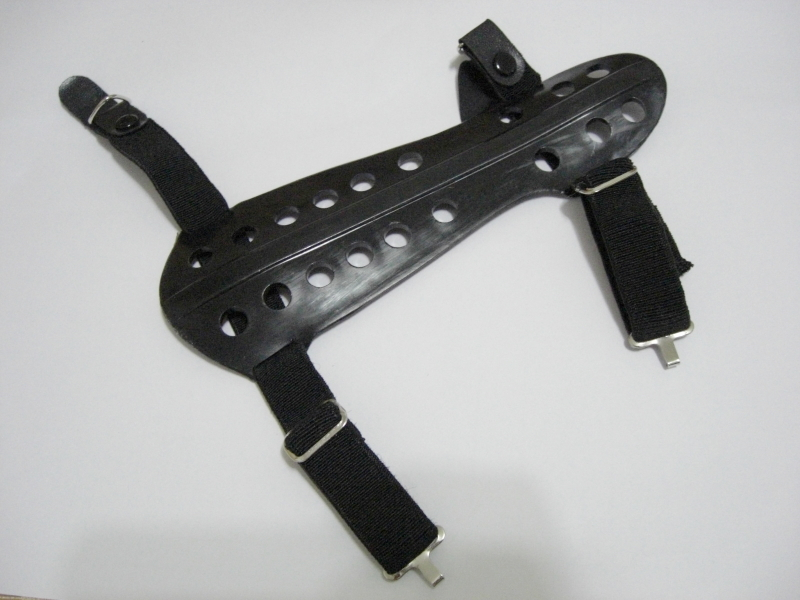 Archery arm guard